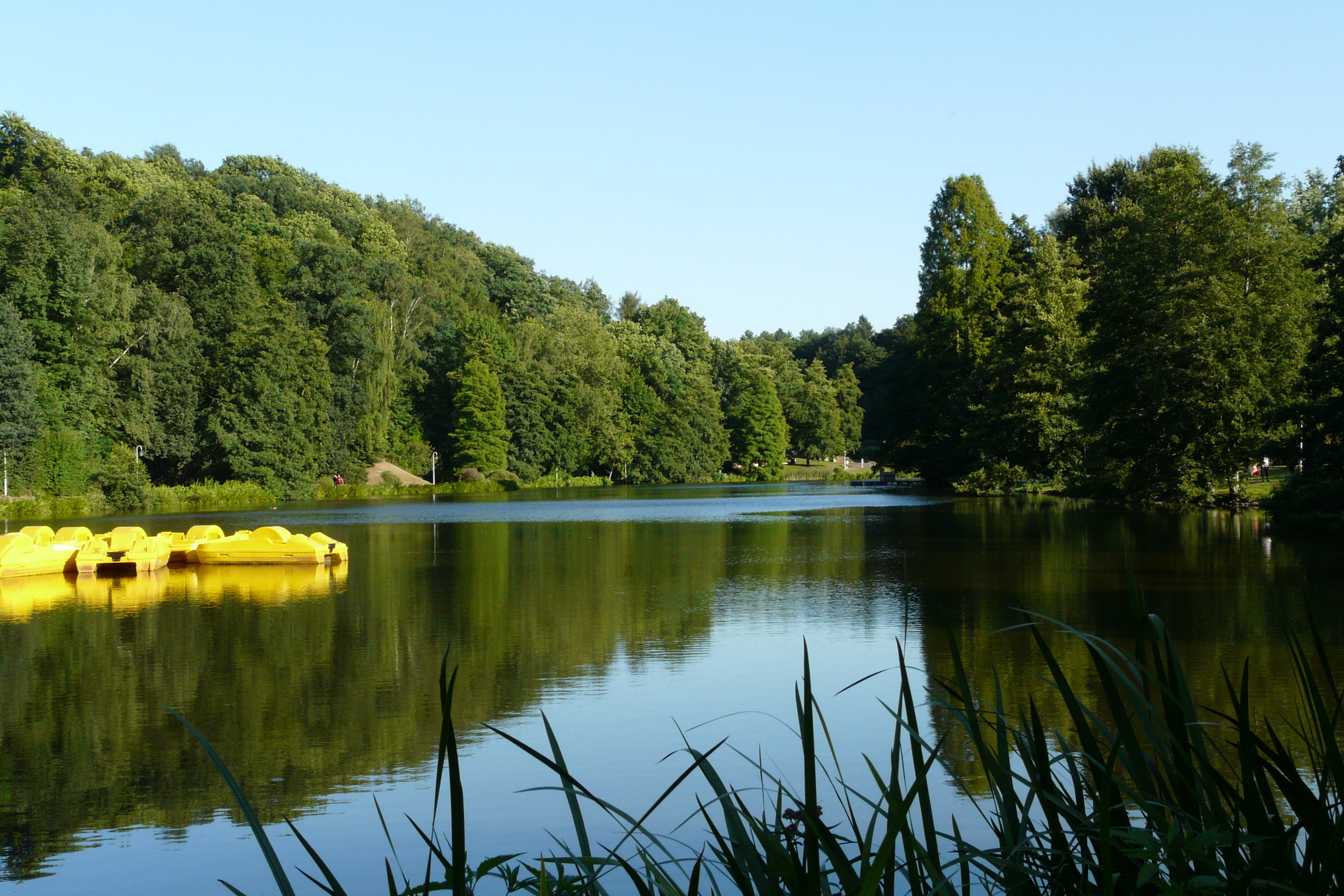 Der Deutsch Mühlenweiher im DFG